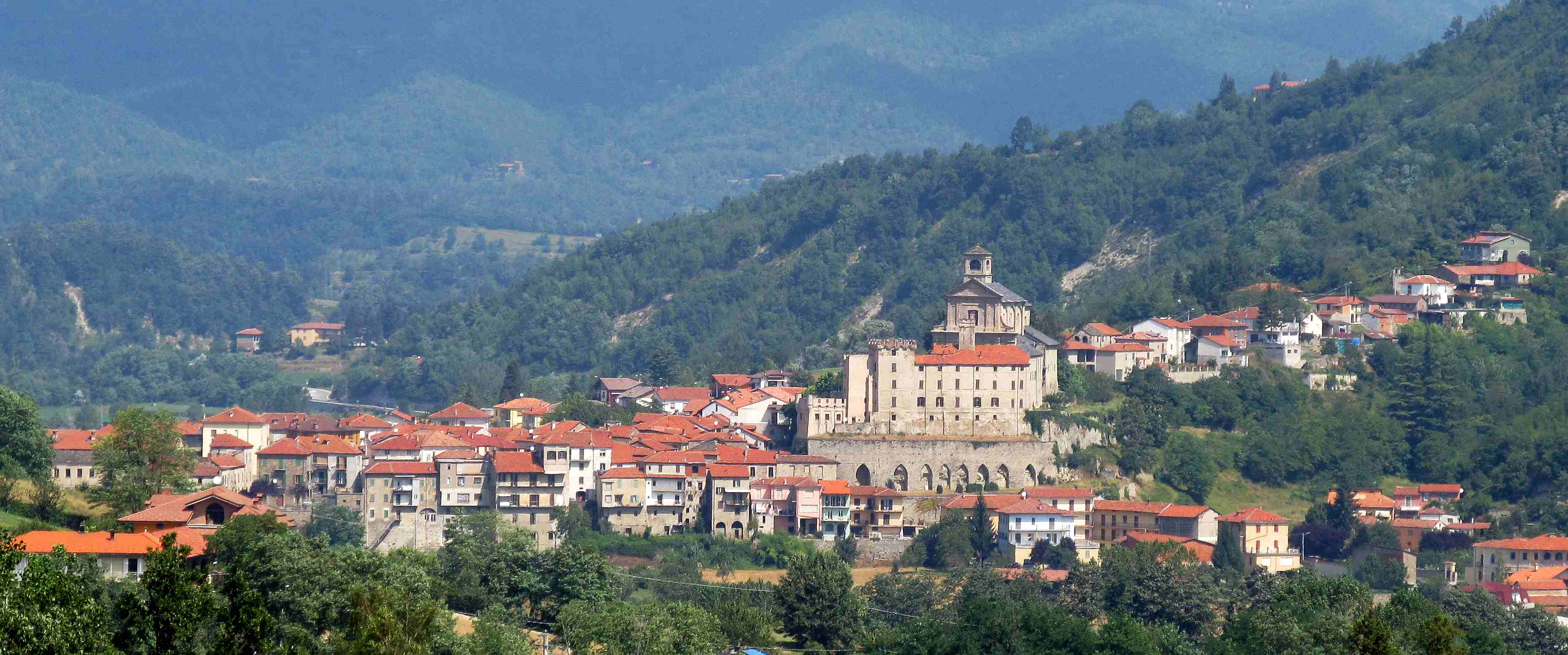 Monesiglio (CN, Italy): panorama